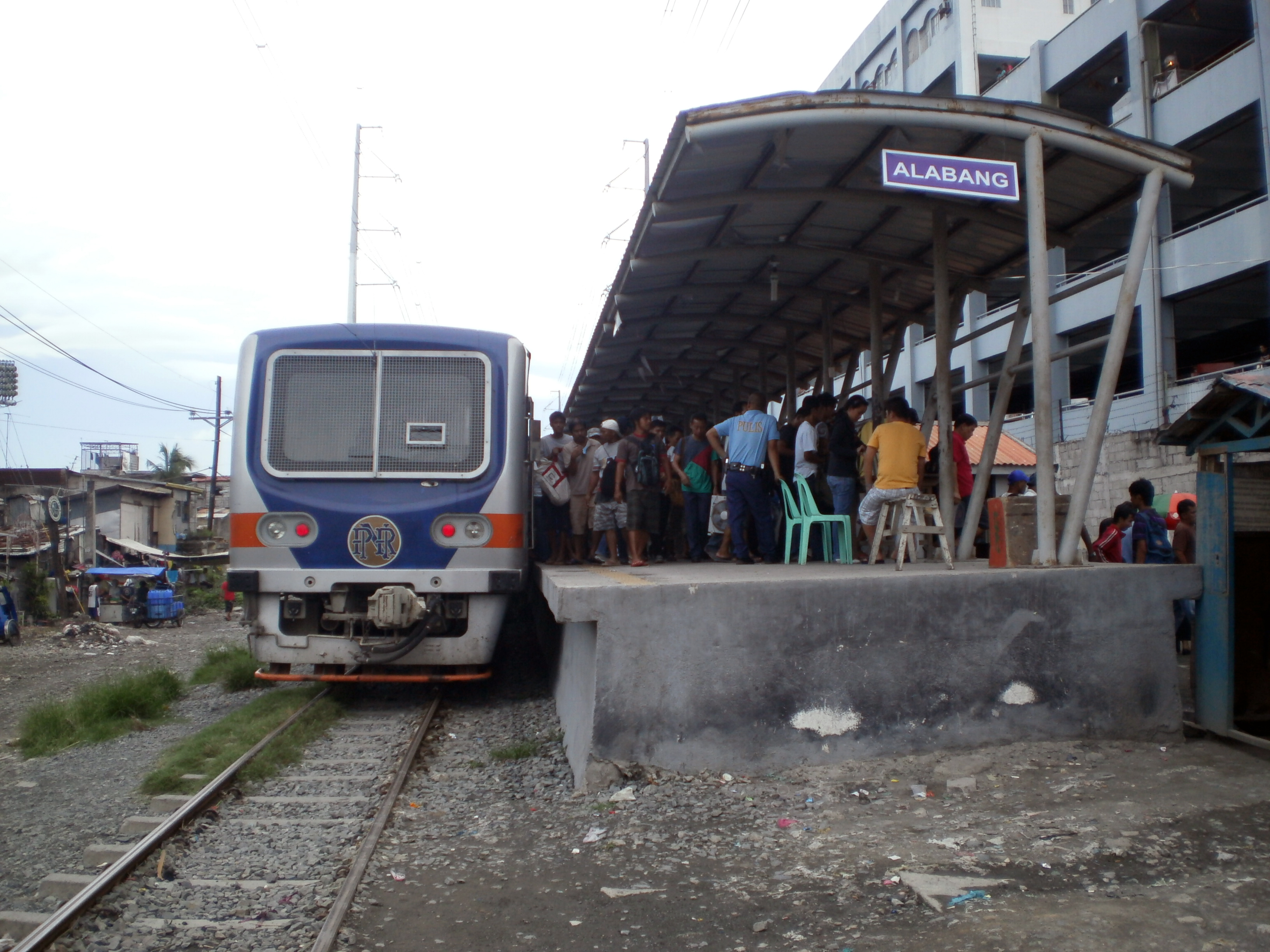 Platform area of PNR Alabang station